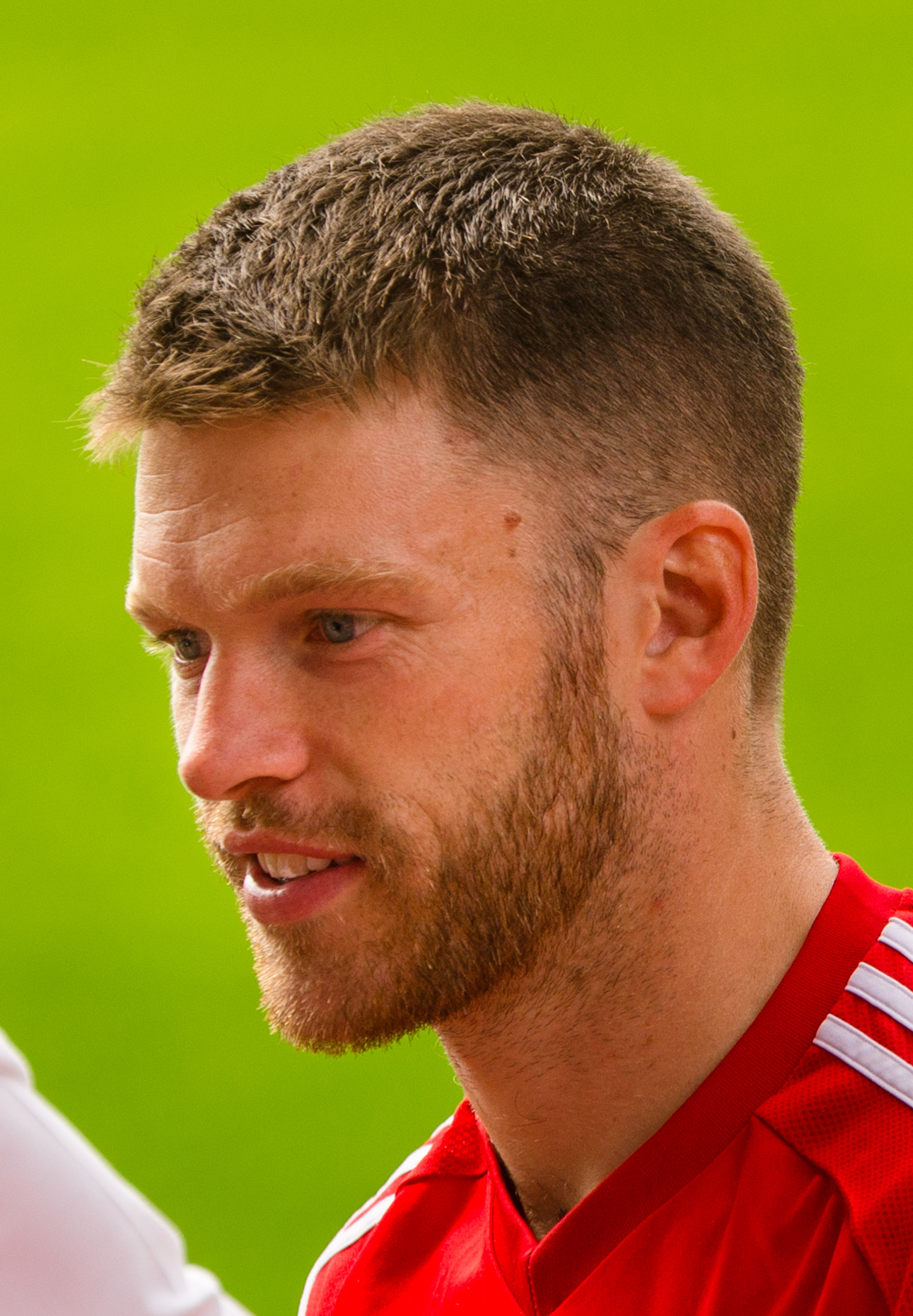 Jamie Mackie in training with Nottingham Forest